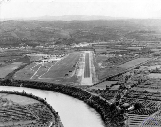 Boscomantico Airport (Verona - Italy) in a old photograph